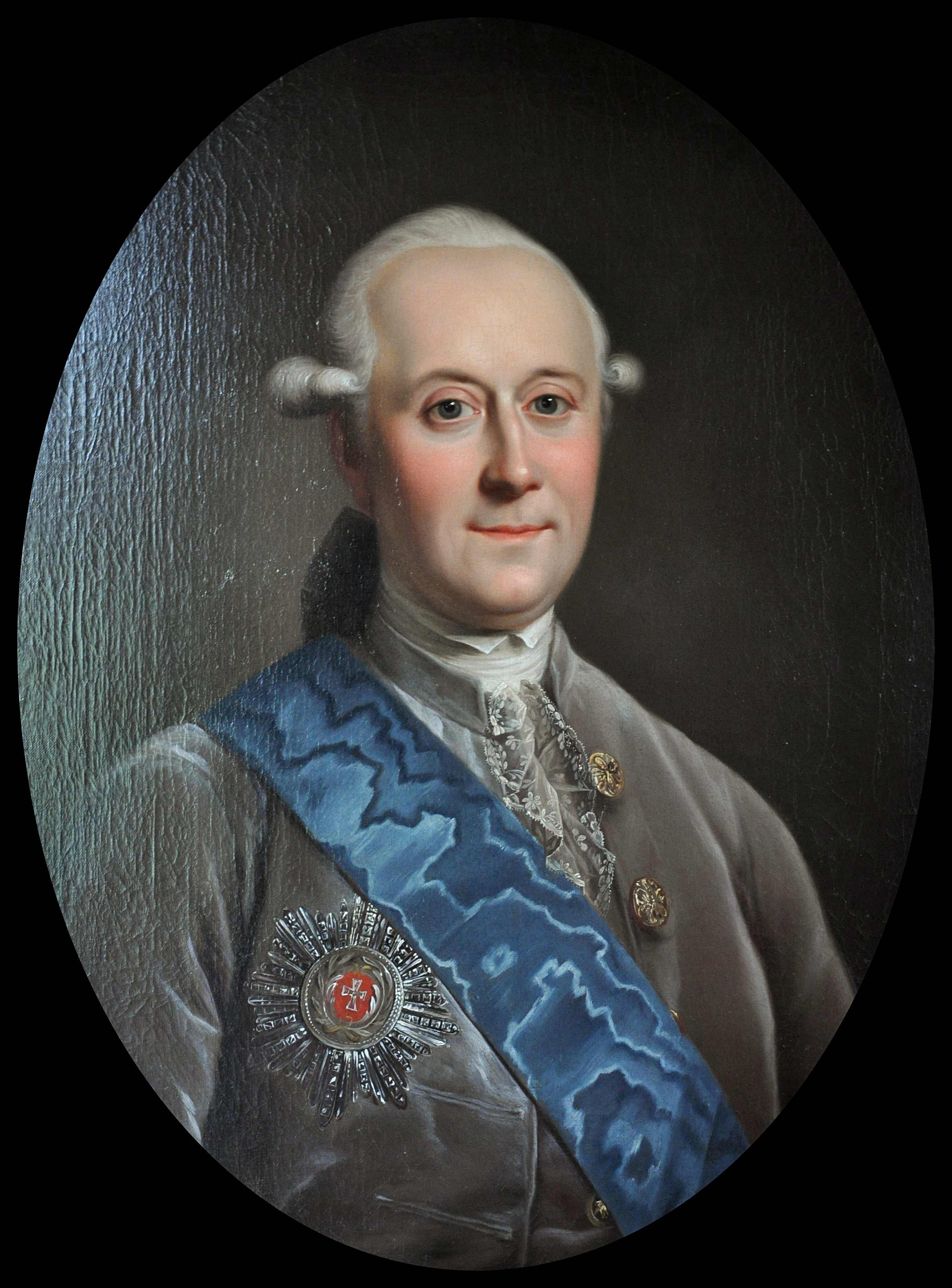 Andreas Peter Bernstorff (1739-1797), statesman and reformer. Portrait from ca. 1790.NB: Image has been reverted!